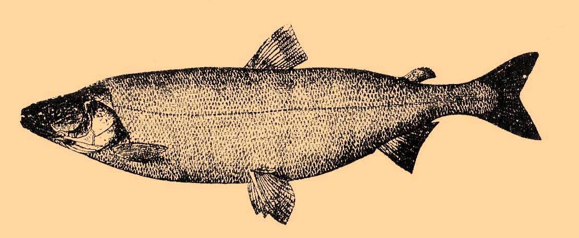 The illustration of Stenodus leucichthys